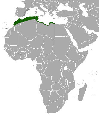 North African Hedgehog (Atelerix algirus) range